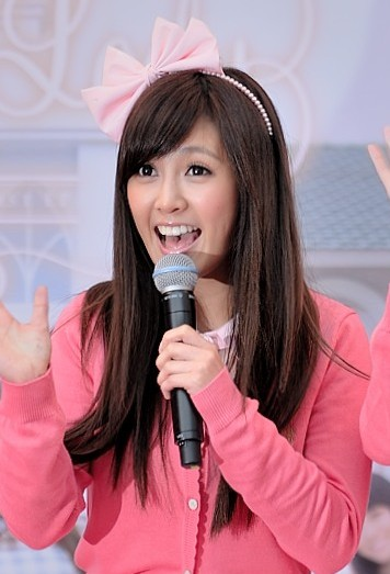 Lin DaYuan